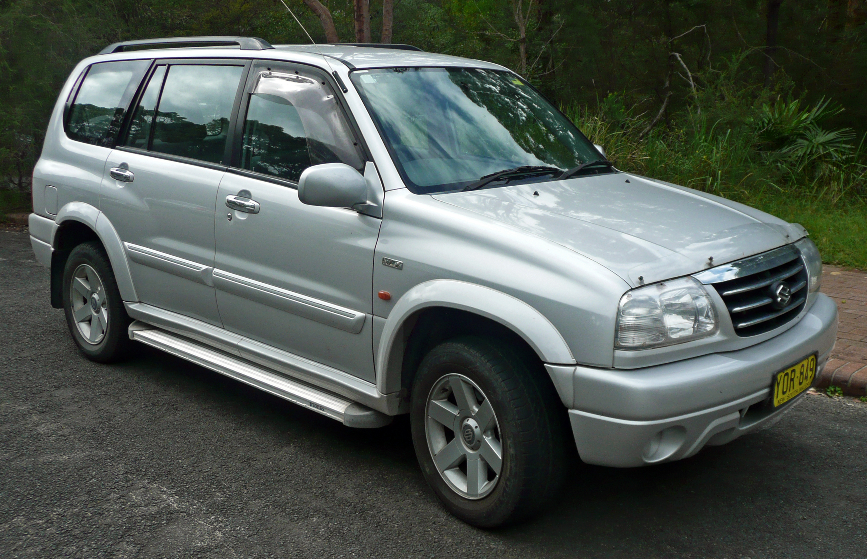 2001–2003 Suzuki Grand Vitara XL-7 (JA) wagon. Photographed in Audley, New South Wales, Australia.